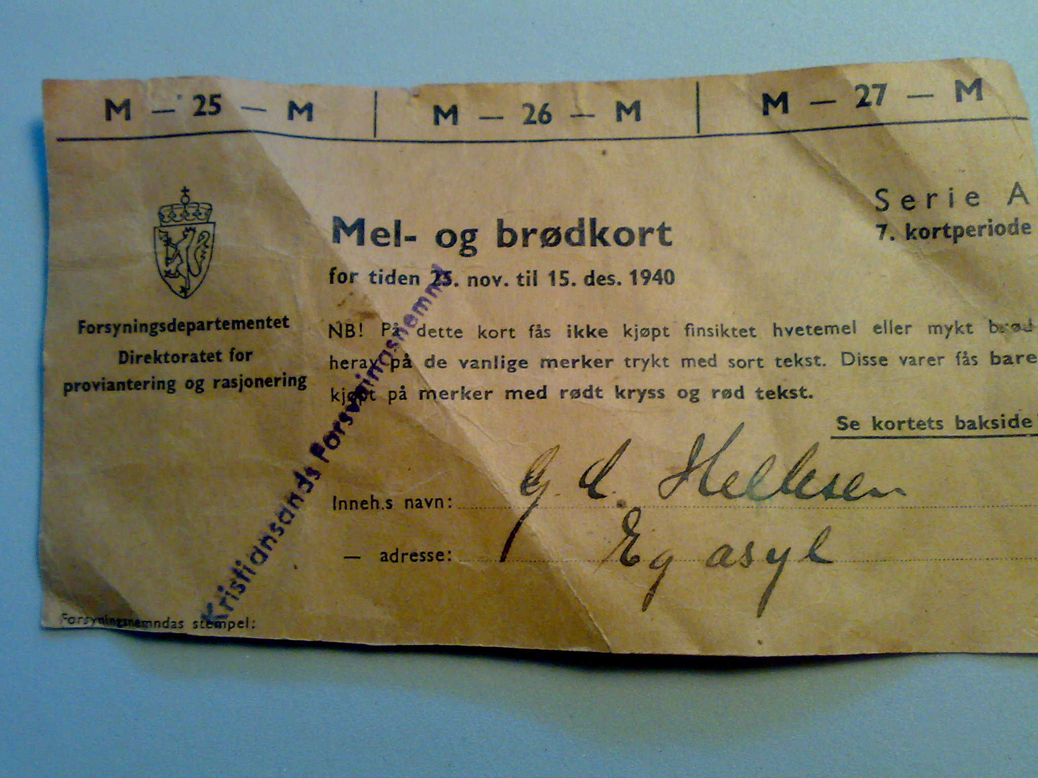 Rationing card, Norway 1940